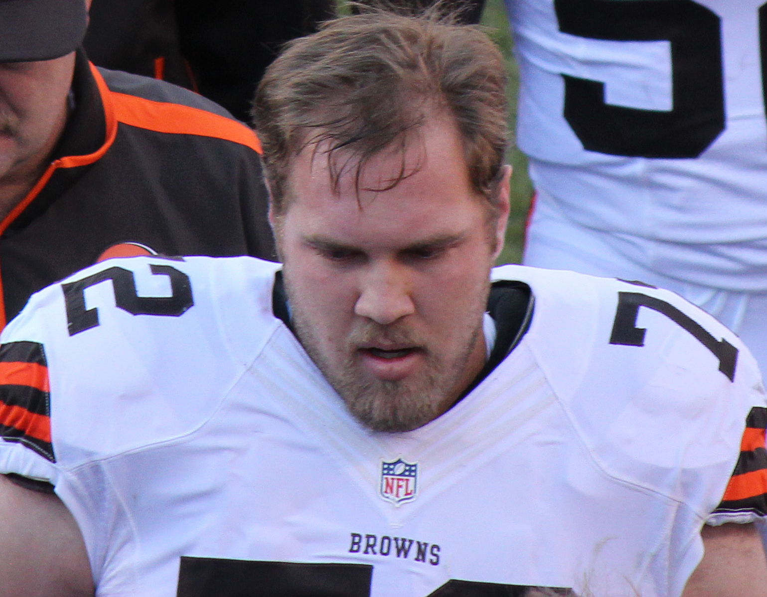 Mitchell Schwartz, a player on the National Football League.